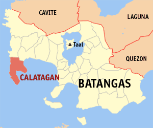 Map of Batangas showing the location of Calatagan